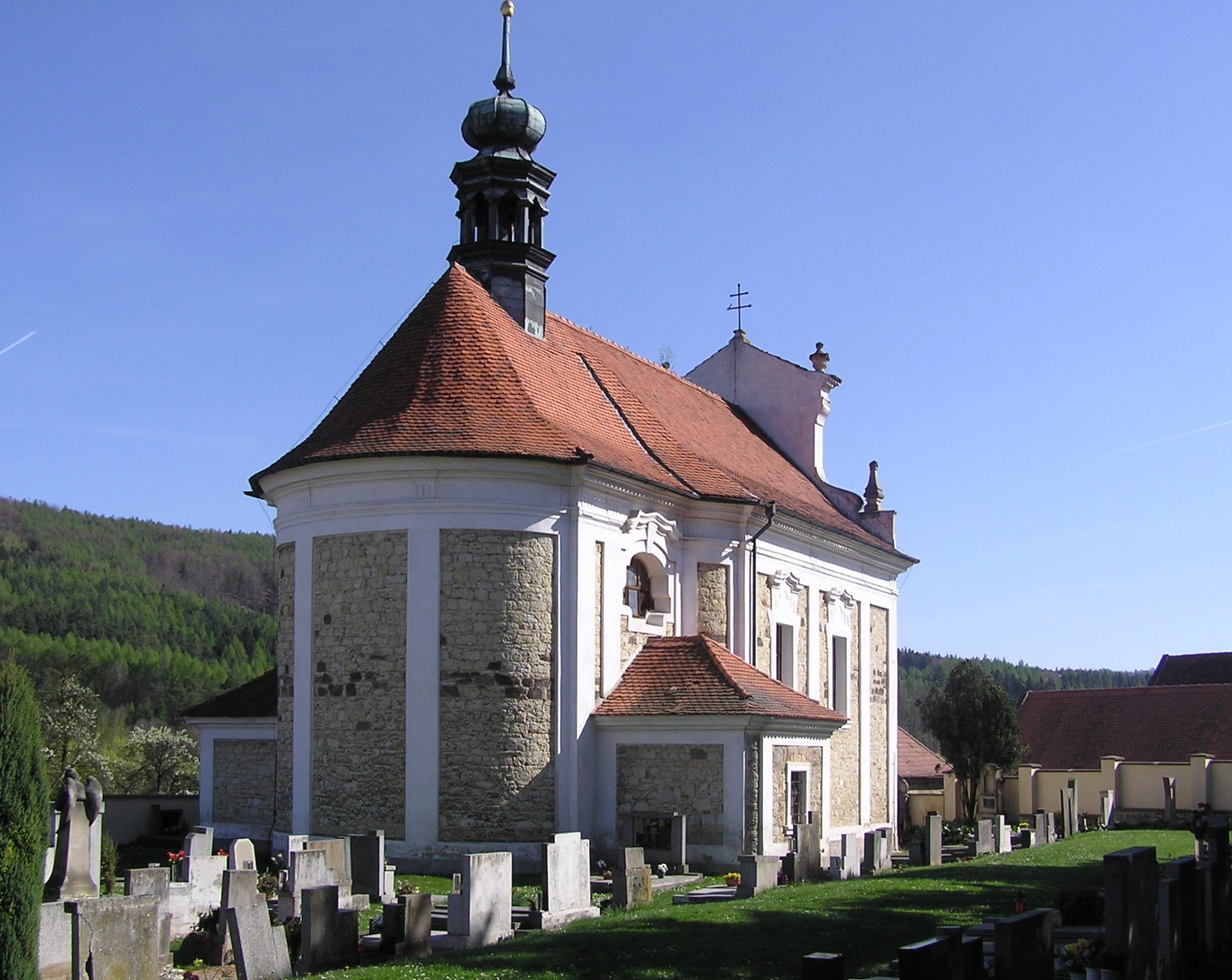 The Church of st. Matthew in Pnetluky, Czech Republic